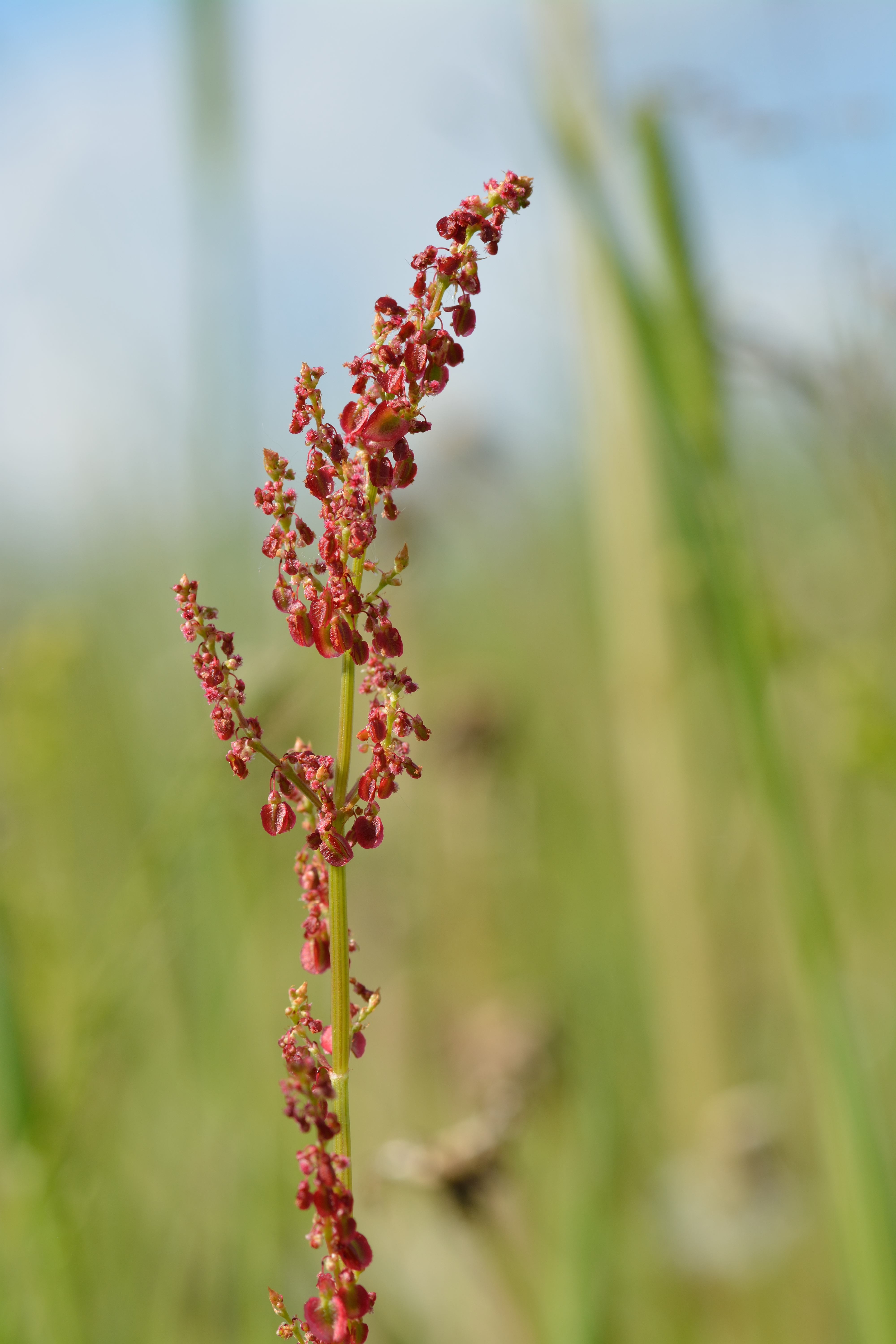 Flowering Common sorrel (Rumex acetosa) - Niitvälja, Northwestern Estonia